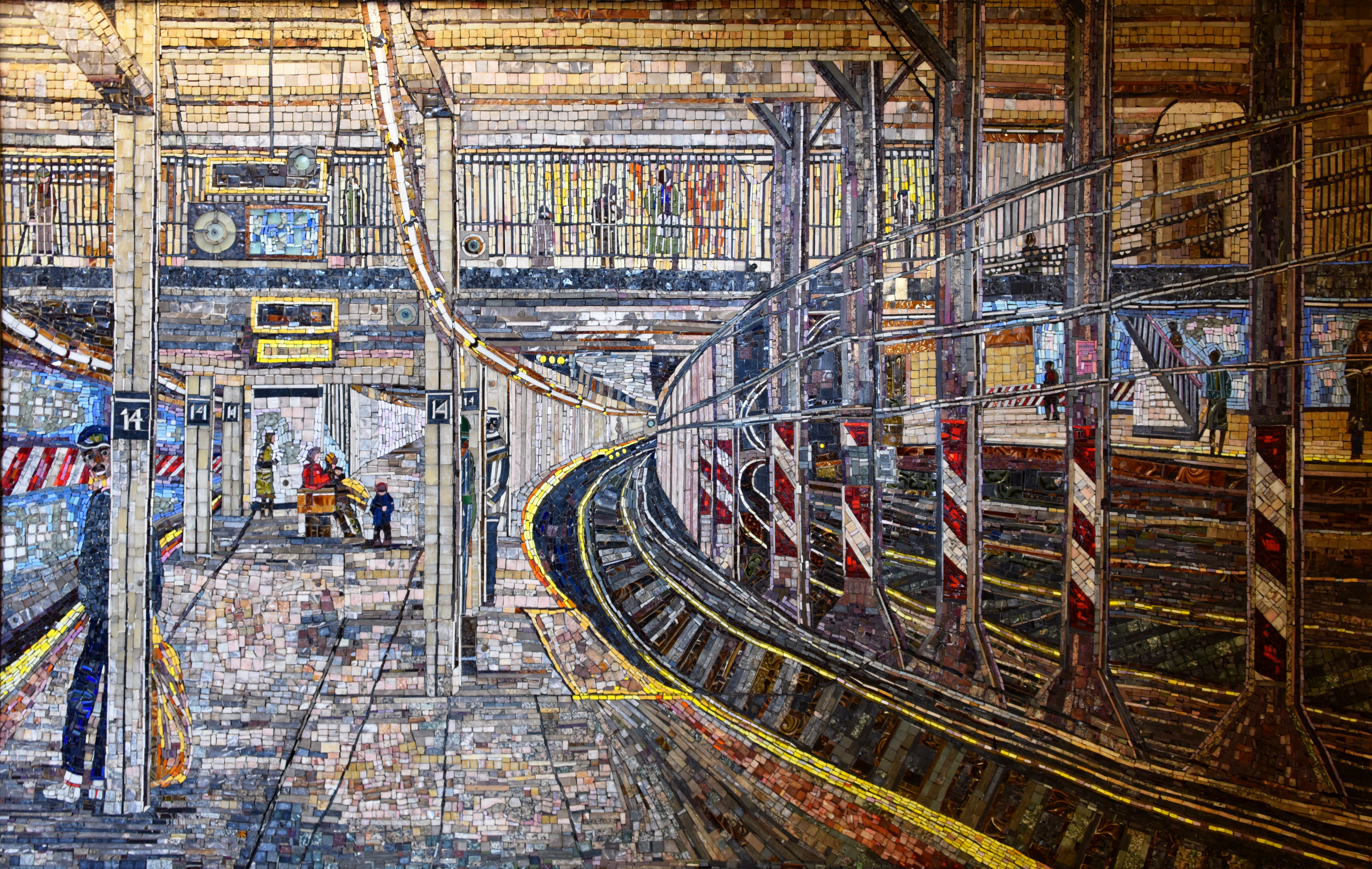 Mosaic by Edith Kramer titled New York City Subway Station at the uptown entrance to the IND Eighth Avenue Line at Spring Street depicting the IRT Lexington Avenue Line platform at 14th Street – Union Square